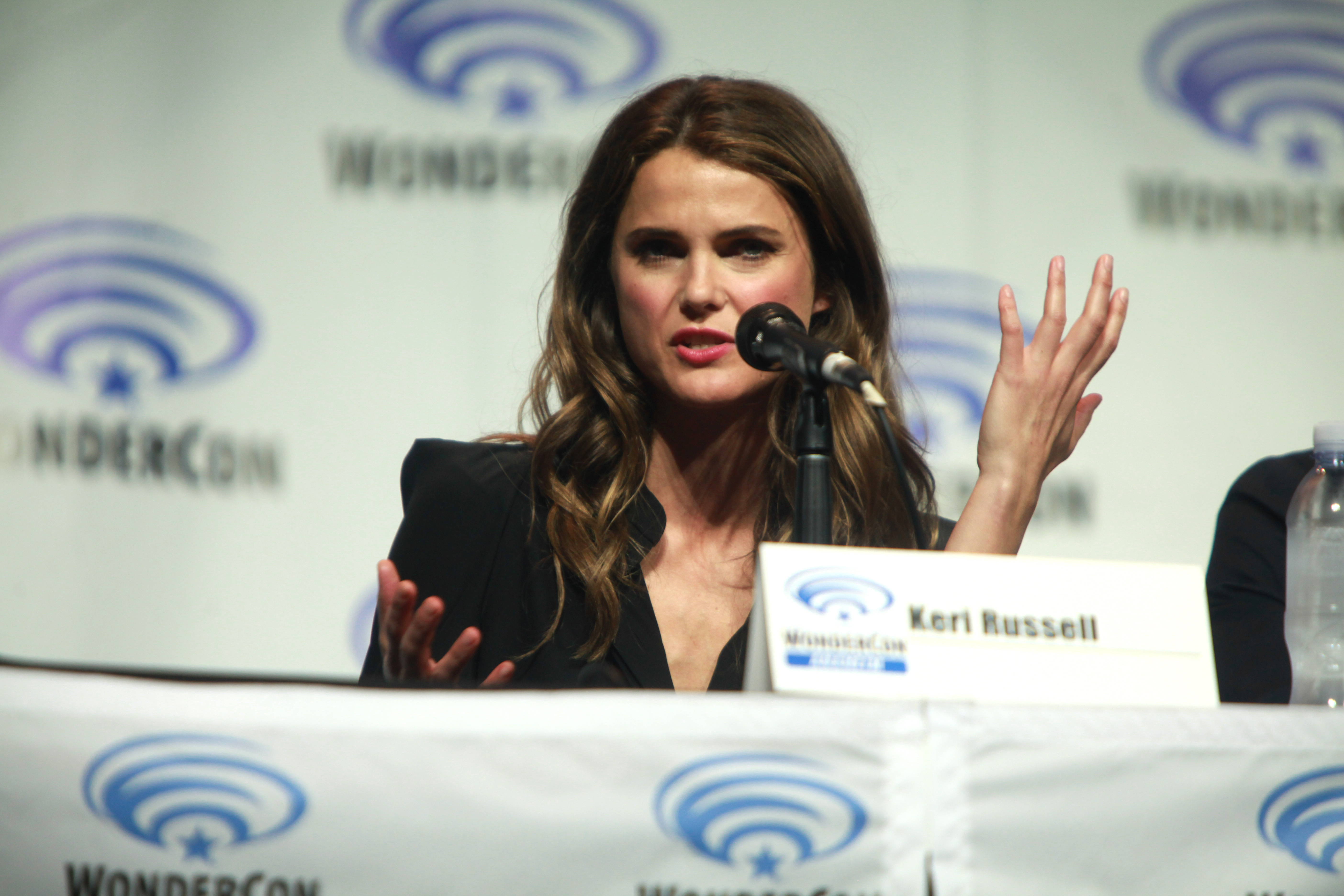 Keri Russell speaking at the 2014 WonderCon, for "Dawn of the Planet of the Apes", at the Anaheim Convention Center in Anaheim, California.